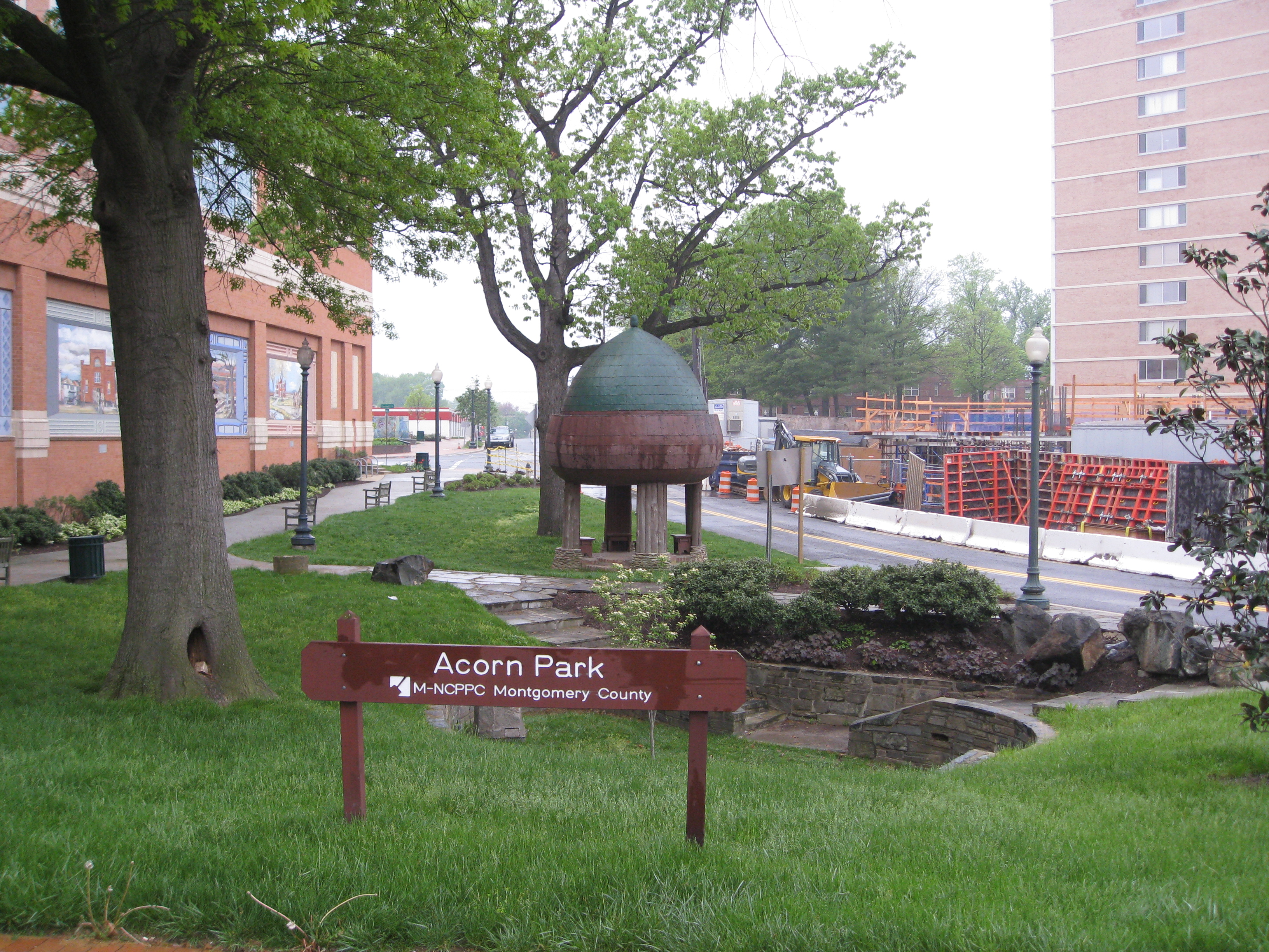 Rainy day with charming construction in the background. The acorn-shape pavilion was constructed in 1842.